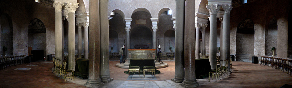 Mausoleum of Princess Constantina, also called "Basilica di Santa Costanza", beside Sant'Agnese fuori le Mura.